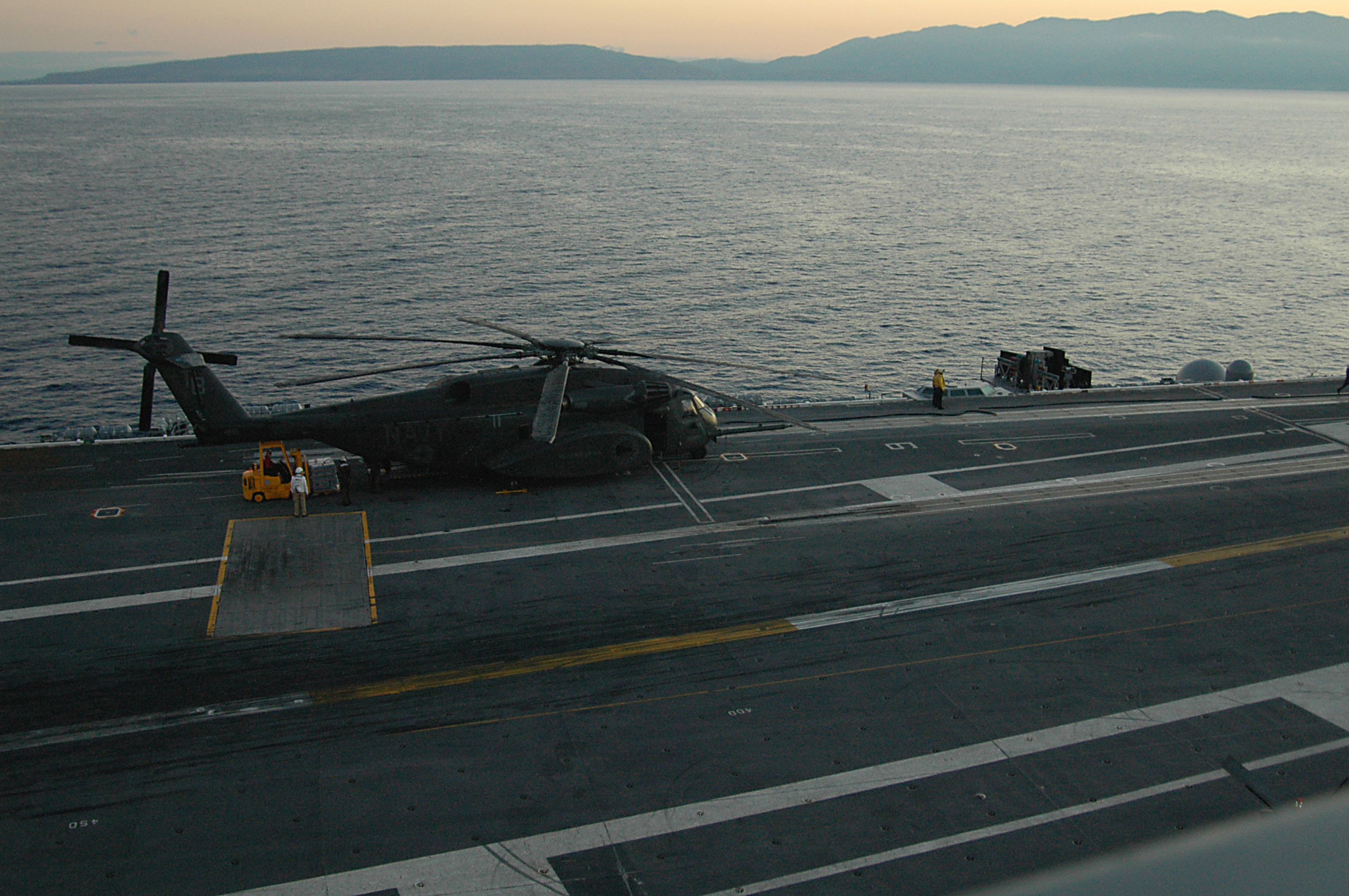 PORT-AU-PRINCE, Haiti (Jan. 15, 2010) An SH-53E Sea Dragon helicopter is on the flight deck of the Nimitz-class aircraft carrier USS Carl Vinson (CVN 70) as the ship arrives off the coast of Haiti. Carl Vinson and Carrier Air Wing 17 are conducting humanitarian and disaster relief operations after a 7.0 magnitude earthquake caused severe damage near Port-au-Prince on Jan 12, 2010. (U.S. Navy photo by Mass Communication Specialist Seaman Stephen G. Hale II/Released)